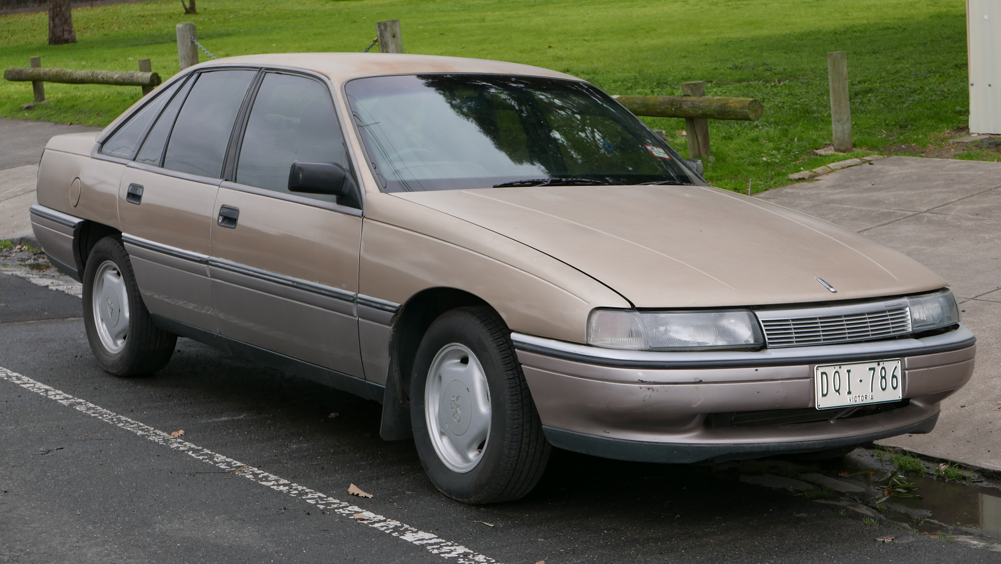 1988 Holden Calais (VN) sedan. Photographed in Fitzroy North, Victoria, Australia. Vehicle registration enquiry results Jurisdiction Victoria Registration DQI786 Chassis code Not available Engine code VH1018760 Compliance date Not available Year of manufacture 1988